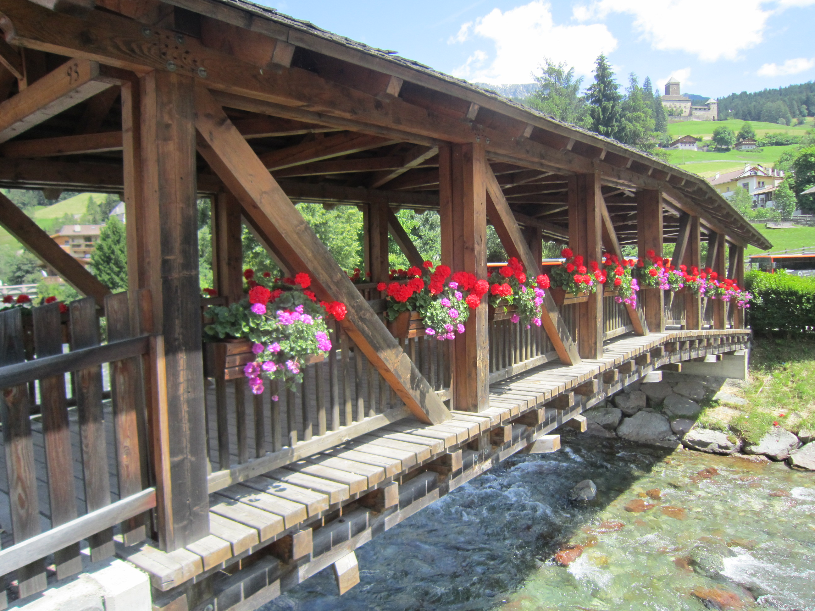 Covered bridge across Talfer river in Sarnthein (South Tyrol)